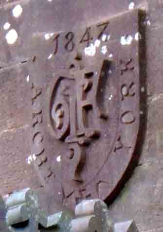 GFJplaque